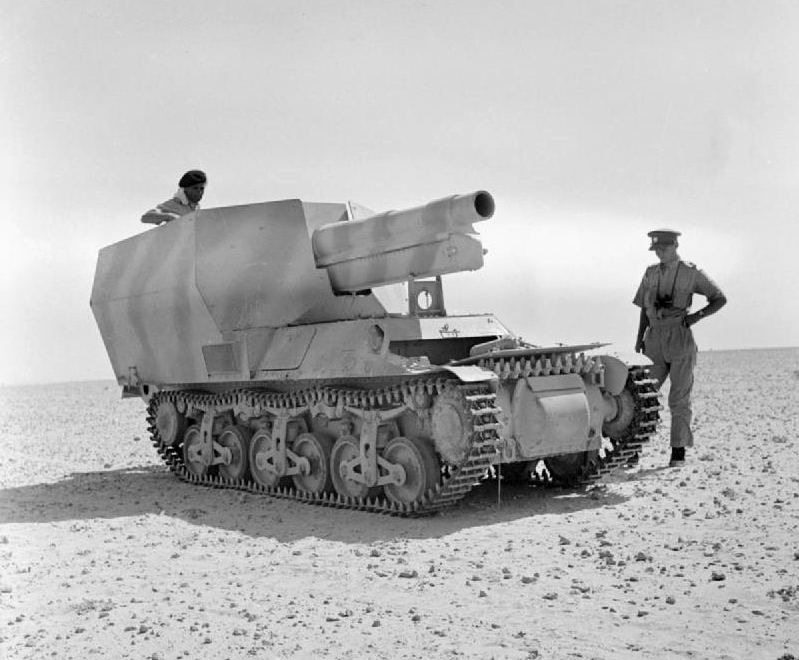 An abandoned German Sd.Kfz. 135/1, a 15 cm self-propelled howitzer on french Lorraine chassis, in North Africa in September 1942.